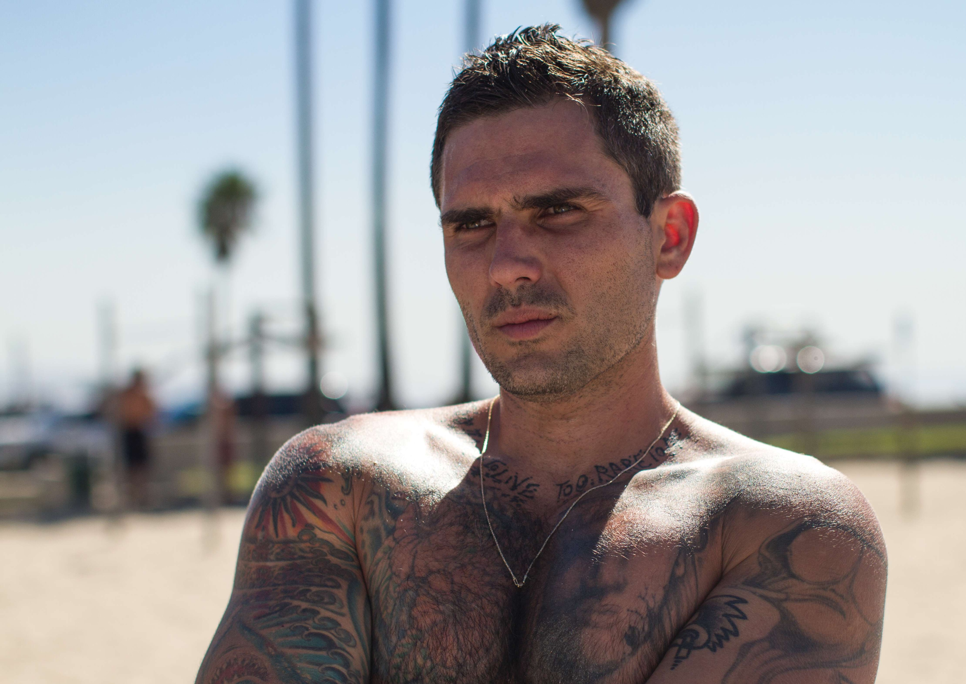 Author Ryan Leone in 2019